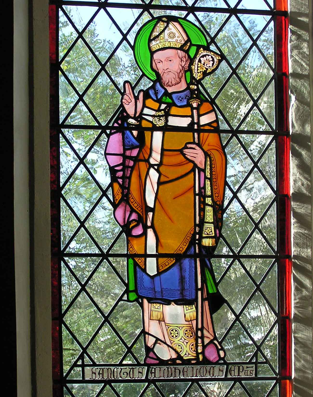 Stained glass window showing Aldhelm, installed in Malmesbury Abbey in 1928 in memory of Rev. Canon C. D. H. McMillan who was Vicar of Malmesbury, 1907 to 1919. Taken by Adrian Pingstone in February 2005 and released to the public domain.